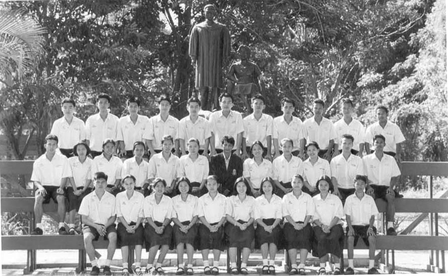 Loung Protpittayapaya -Sir. Leam Bunnark Monument